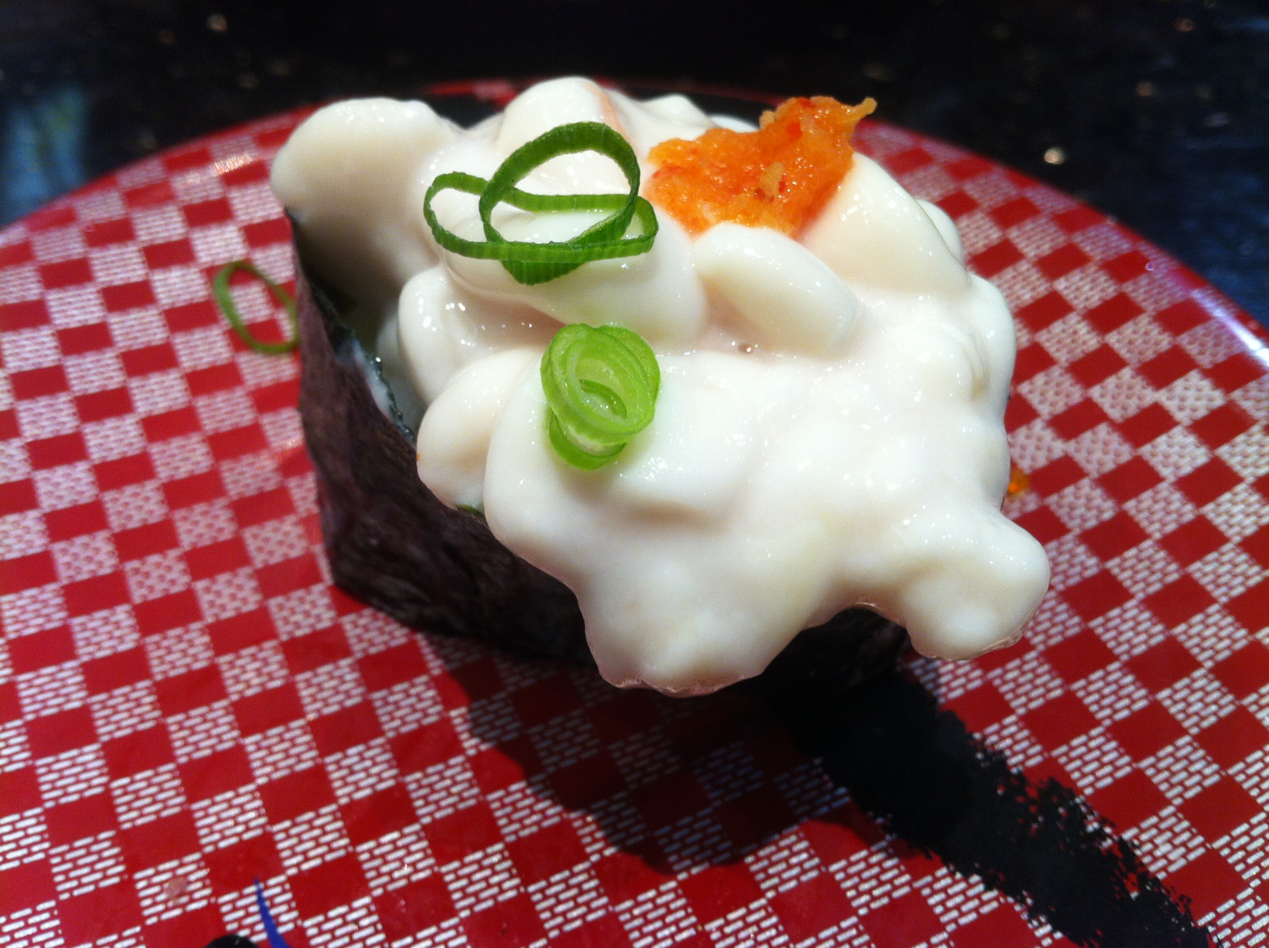 Shirako gunkan maki (cod sperm sushi), served at a kaitenzushi in Kameido, Tokyo.